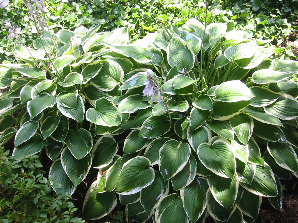 Francee Hosta from backyard